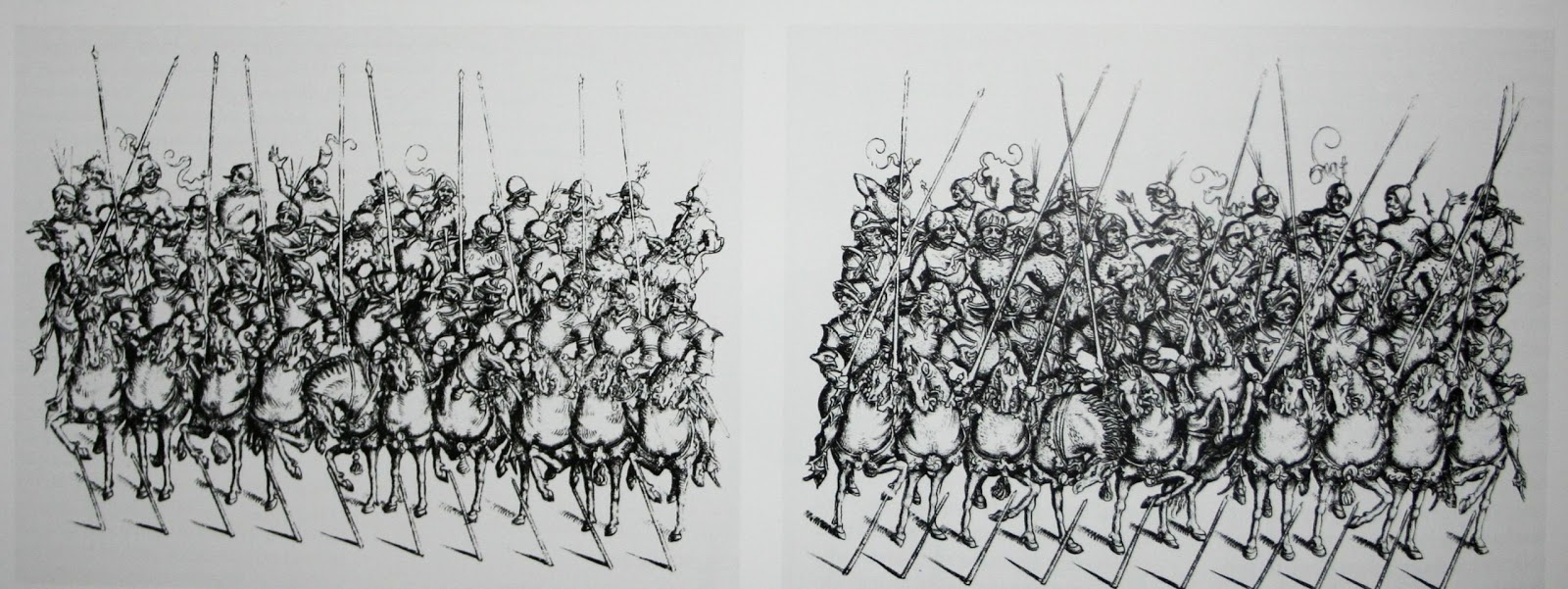 Burgundian mounted rossbowmen and gendarmes, from a series of illustrations, attributed by the printers mark, which resembles a W and an A, to 'Master W A'. The book was produced in Flanders and it is believed date from the early 1470s